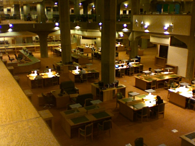 Iran National Library